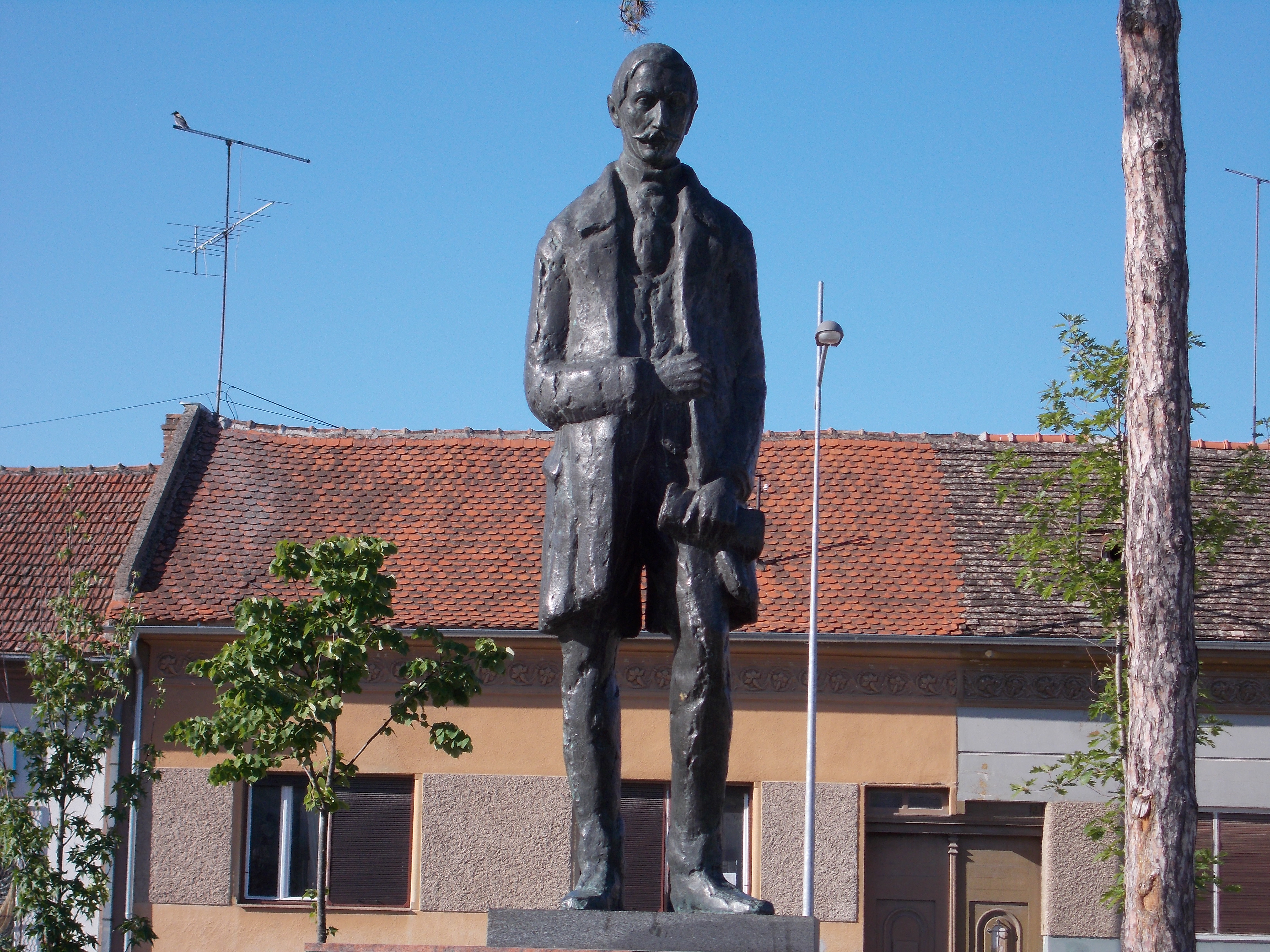 Monument to Jovan Sterija Popovic (1806 - 1856), Serbian writer generally considered as a father of a Serbian drama. He is one of the best Serbian writer of comedies. He was appointed head of Ministry of Education. He founded the National Museum in Belgrade.